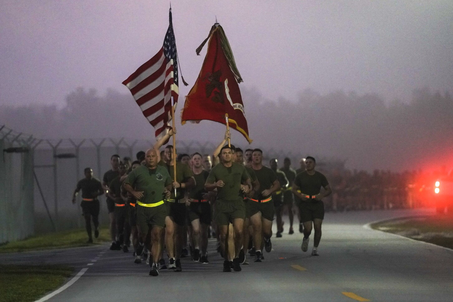 Marine Corps physical training as a unit. A full squadron training exercise.